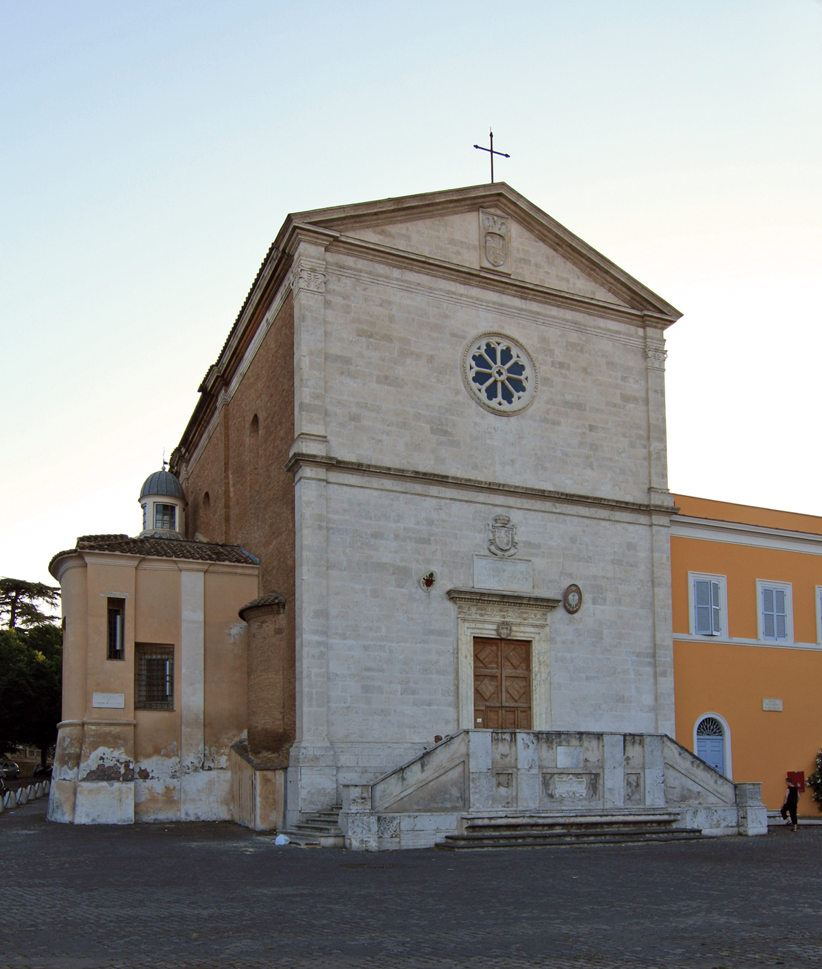 Church of San Pietro in Montorio, Rome.